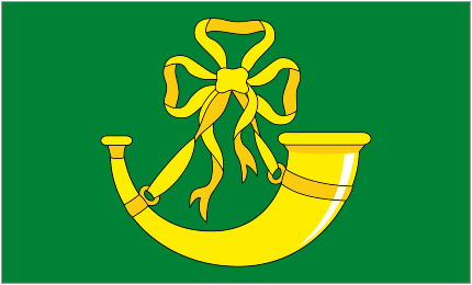 Huntingdonshire flag